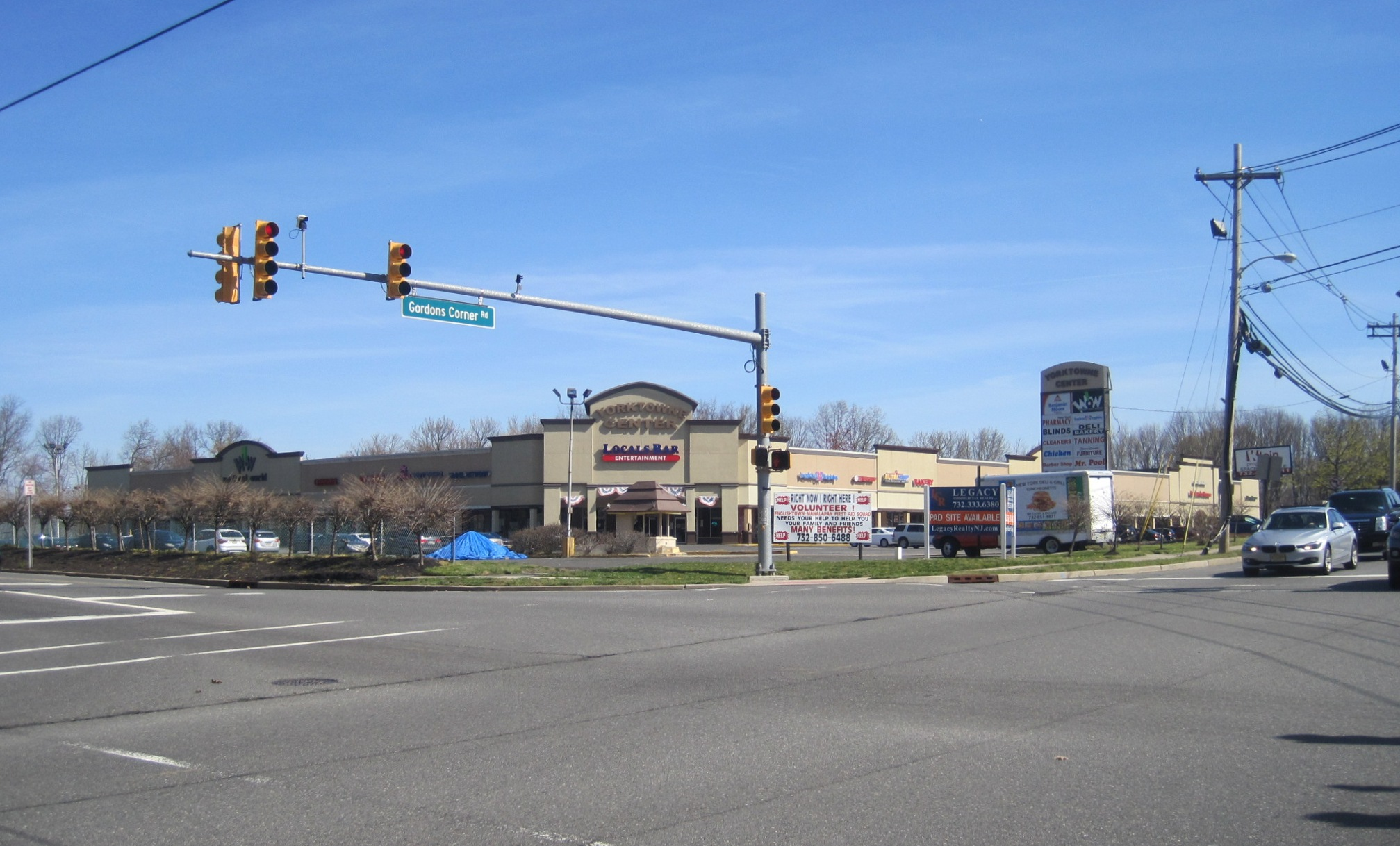 Photo of Yorketown, New Jersey, a census-designated place within Manalapan Township. Photo taken looking at Yorketown Center, a shopping plaza located at the intersection of Gordons Corner Road and Pease Road.